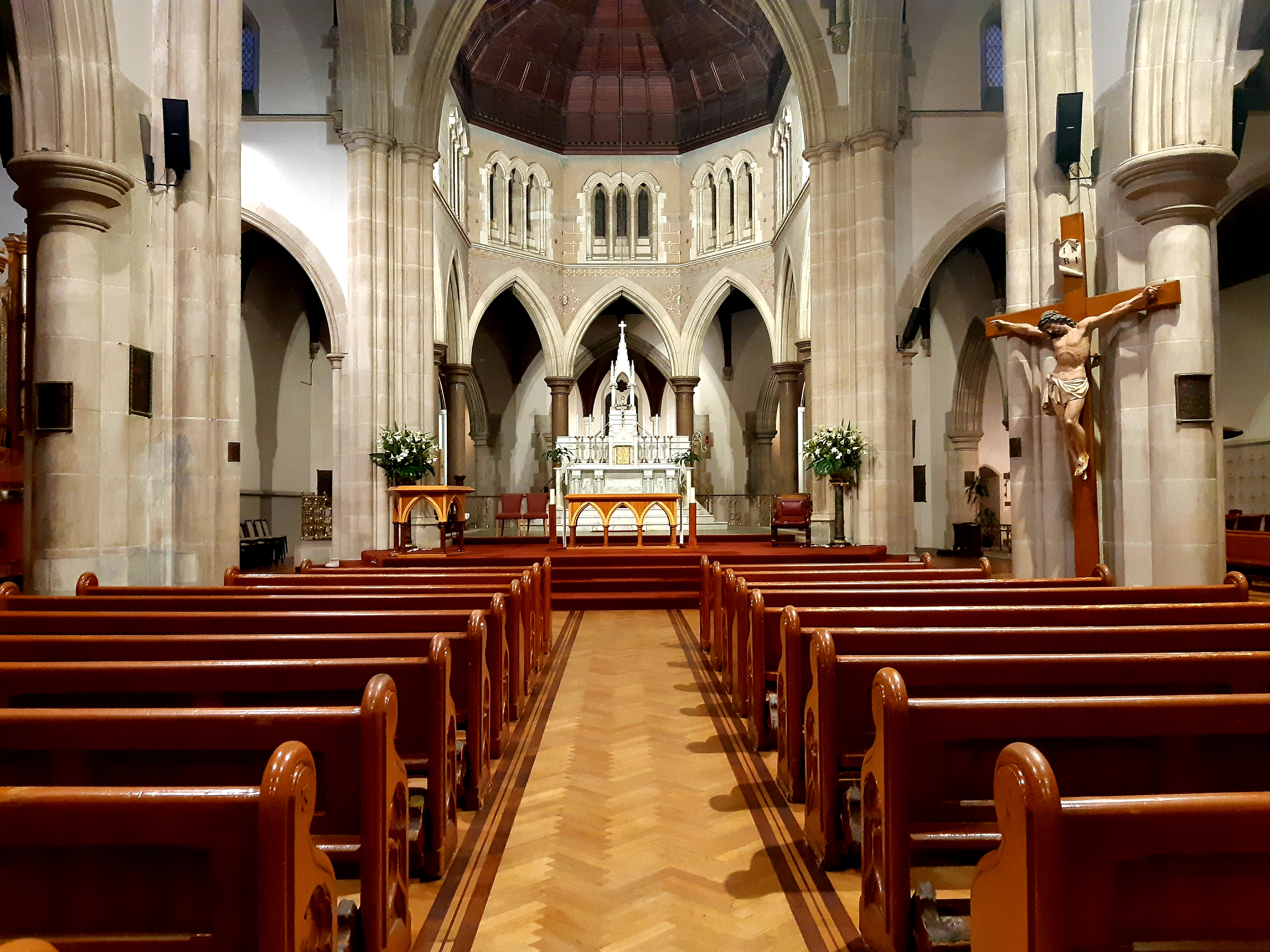 Saint Ignatius Church, Richmond